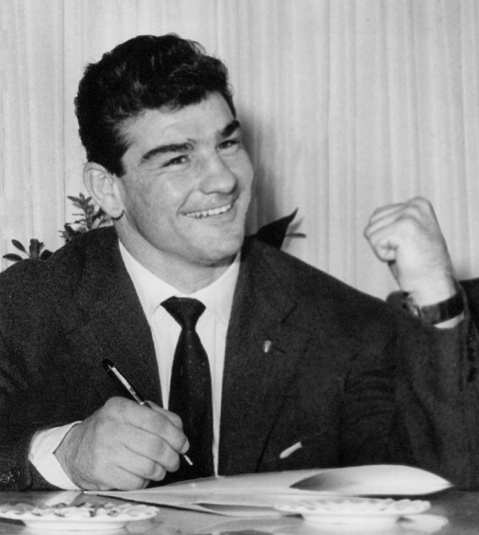 1961 Olympic Middle Weight Boxer Giulio Rinaldi Press Photo